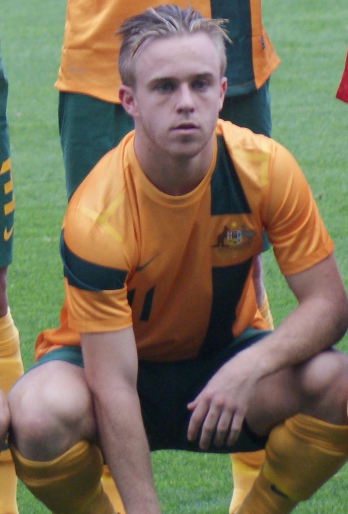 Young Socceroos vs New Zealand